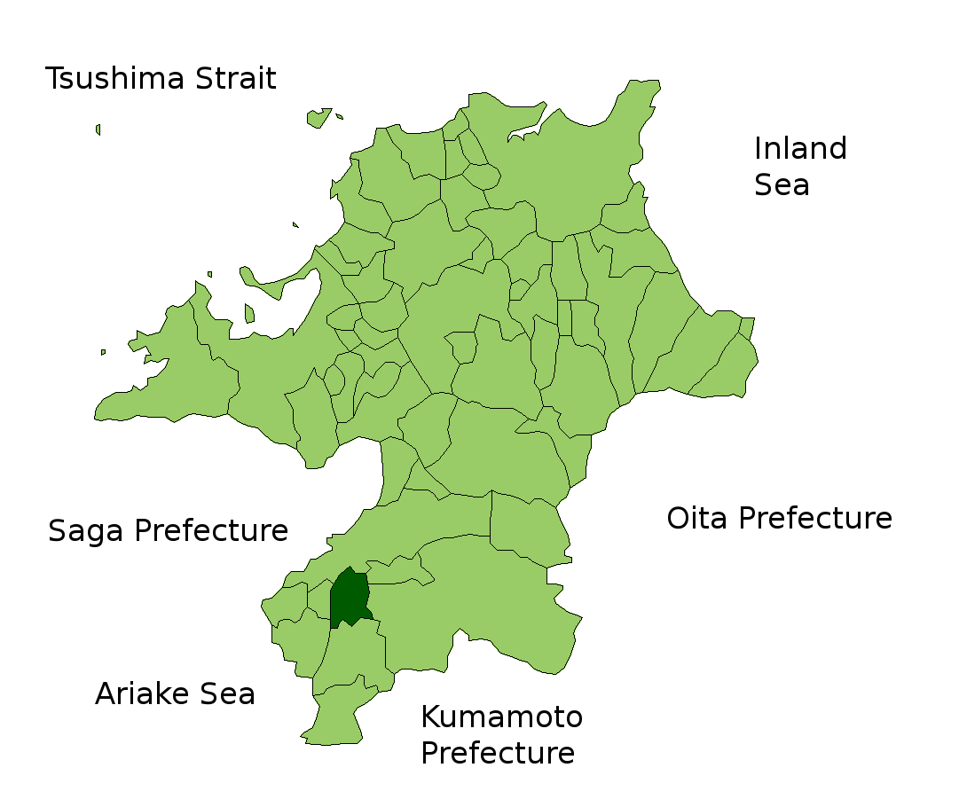 Location Map of Chikugo in Fukuoka Prefecture, Japan